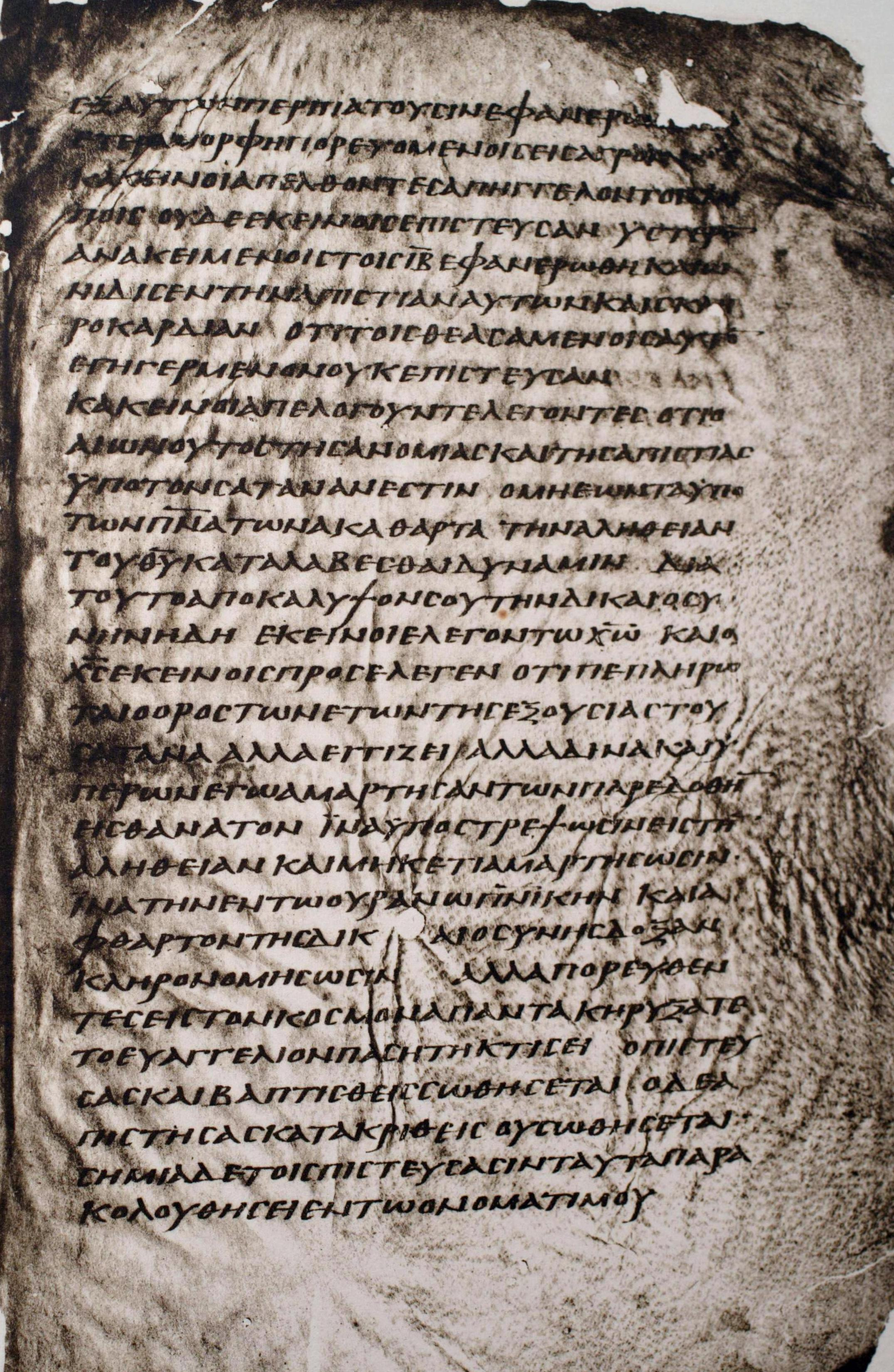 Text of the Gospel of Mark 16:12-17 containing the "Freer Logion" in Mark 16:14